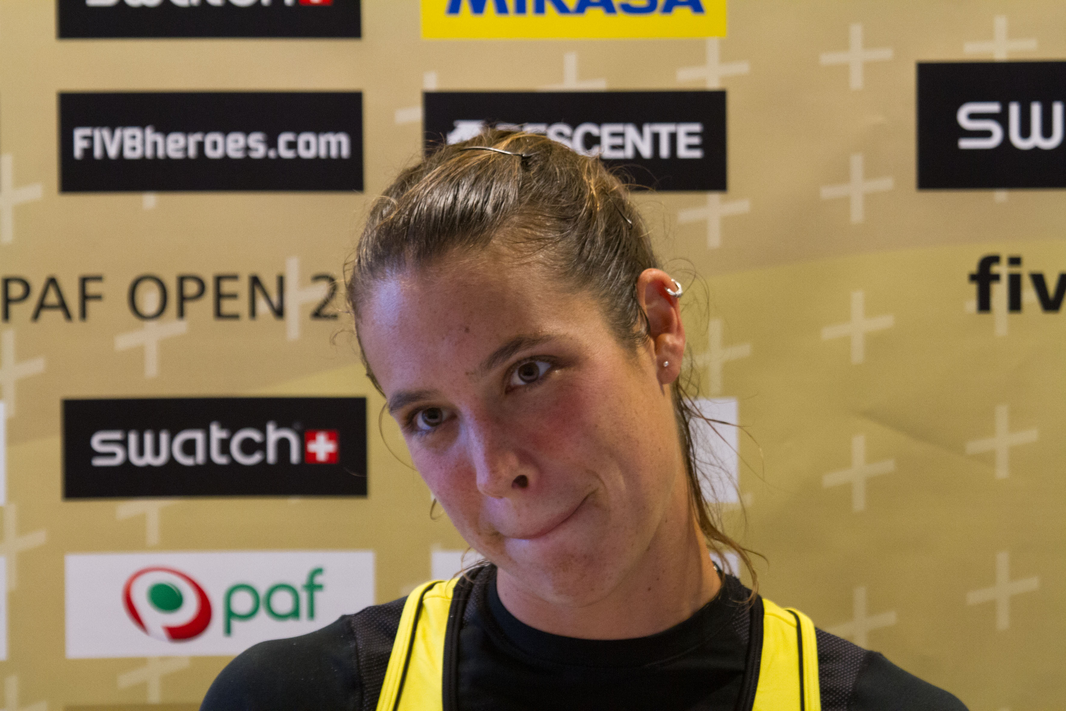 Liliana and Baquerino of Spain book their place in the final of Paf Open in Mariehamn on September 1 2012, Åland, Finland. Photograph: Rob Watkins/ This picture is free to use as long as it it credited: Rob Watkins/